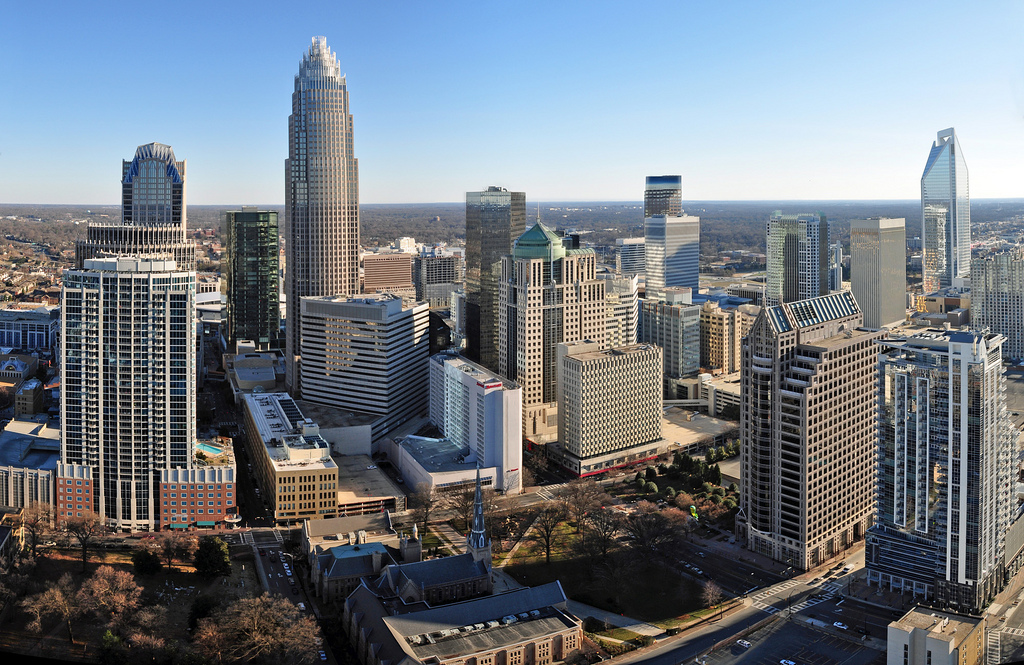 Fourth Ward, Charlotte, NC, USA